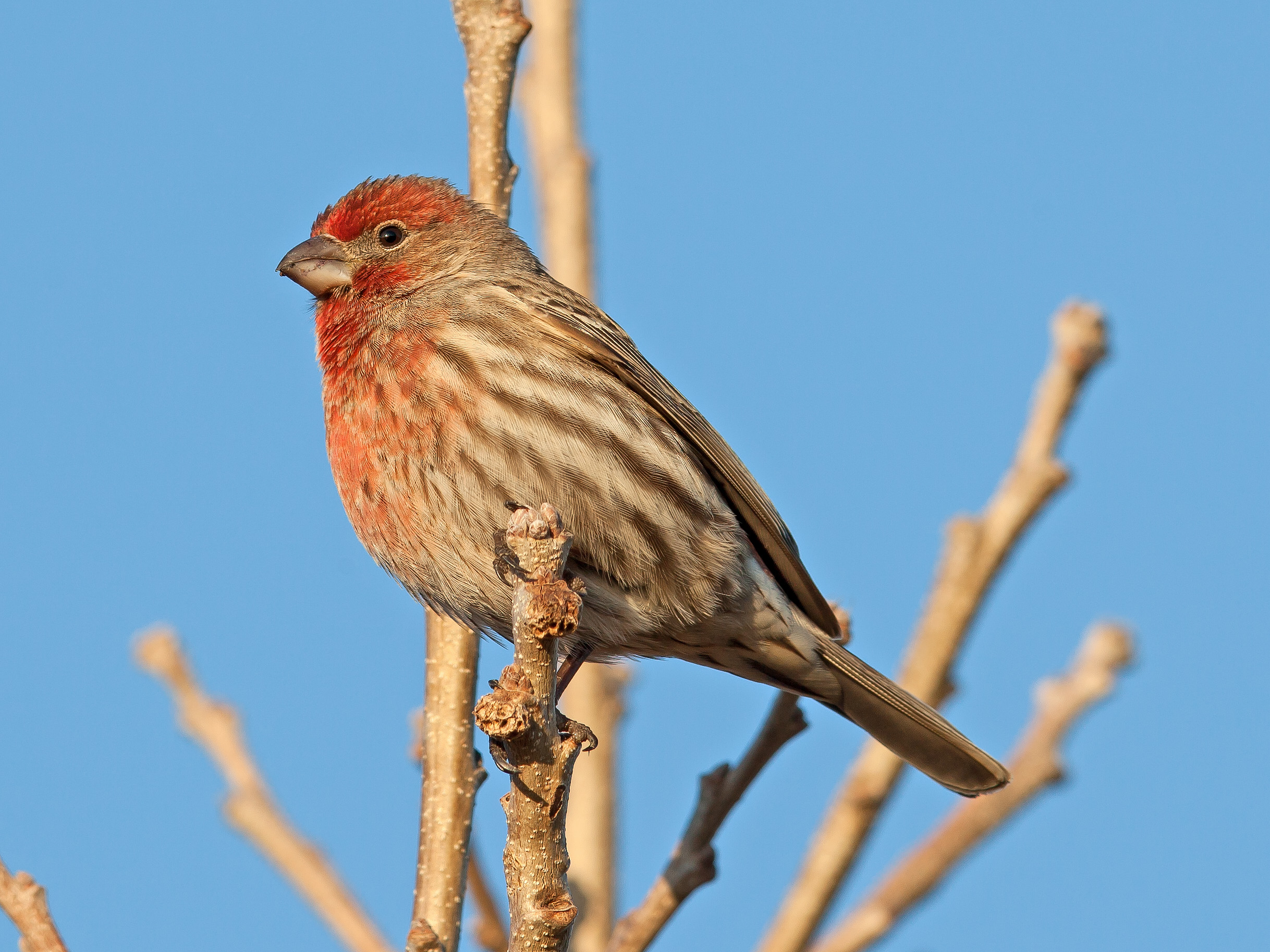 An adult male House Finch in Madison, Wisconsin, USA.